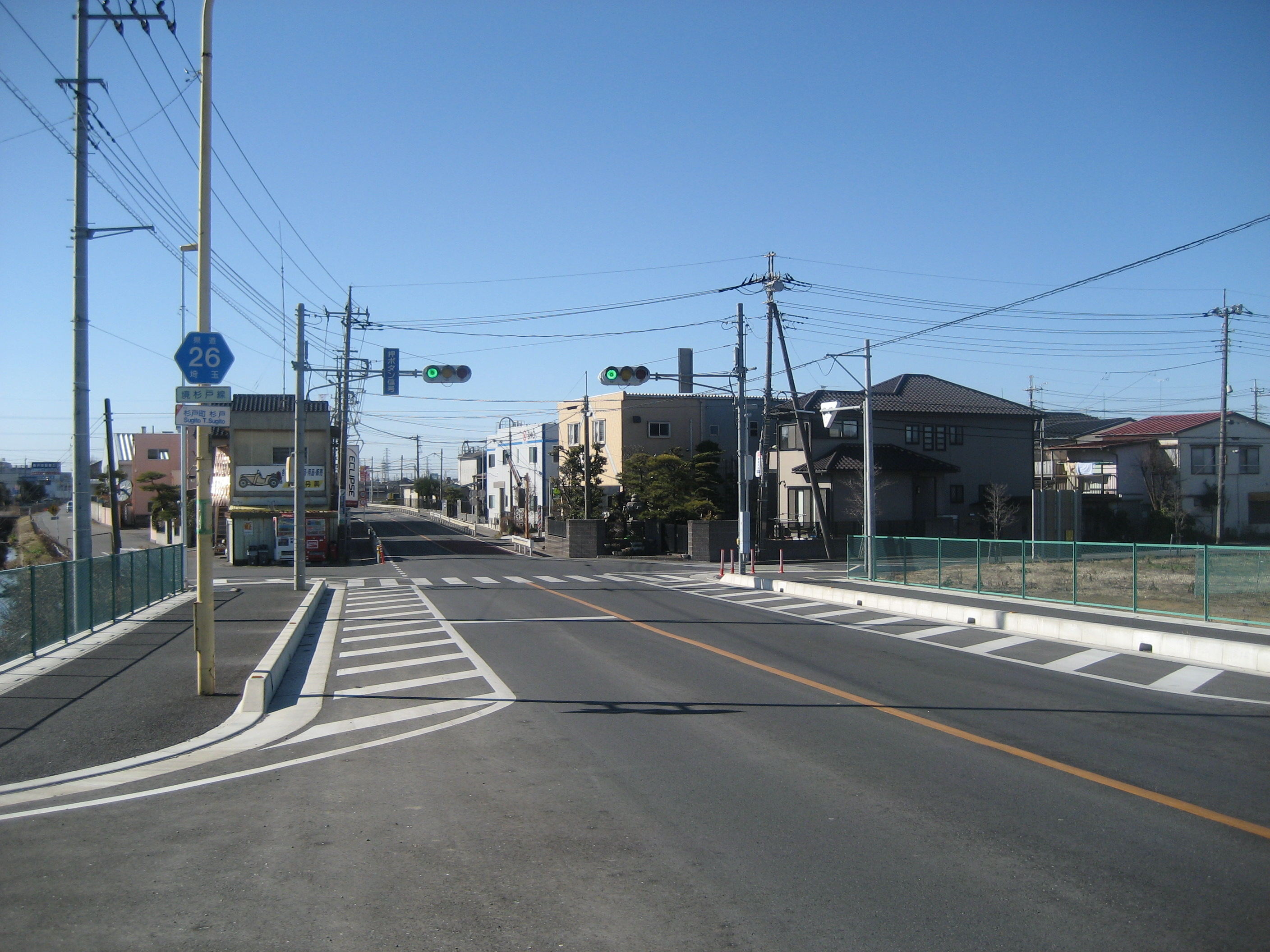 Saitama Prefectural Road Route 26 in Sugito Town